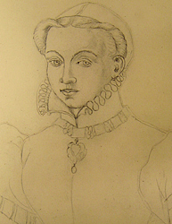 NIEUWENAER, Amelie van, also known as Amalia von Neuenahr (brn. Alpen, Germany 1539 – begr. Alpen 20-4-1602)